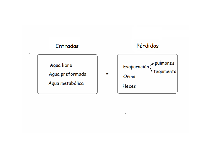 Water balance in terrestrial animals